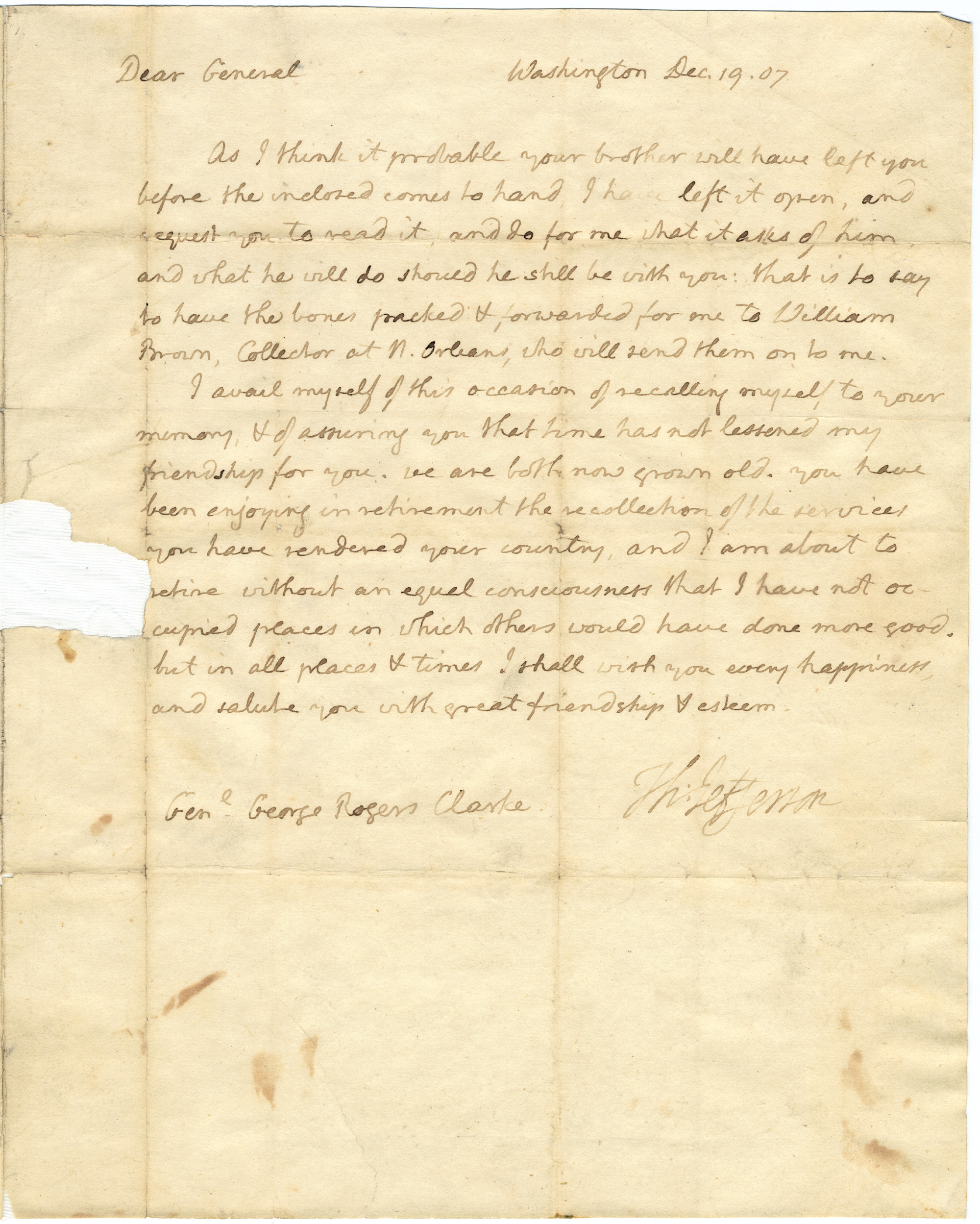 In 1807 Thomas Jefferson sent General George Rogers Clark to Big Bone Lick, Kentucky, to collect fossils. The site of an ancient salt lick, the Kentucky site had once attracted Pleistocene-era mammoths, giant ground sloths and giant bison, which had died near the salt lick when they became trapped in the surrounding bogs, leaving a rich heritage of fossils. In his letter of 1807, Jefferson requests that General Rogers have the bones that Rogers had collected packed and shipped to a New Orleans collector, who would then forward them to Washington. In a letter written the next year, 1808, Jefferson described to the French naturalist Bernard Germain de Lacépède the details of Clark's expedition, and offered the bones and other examples of American fauna to the National Institute of Paris.